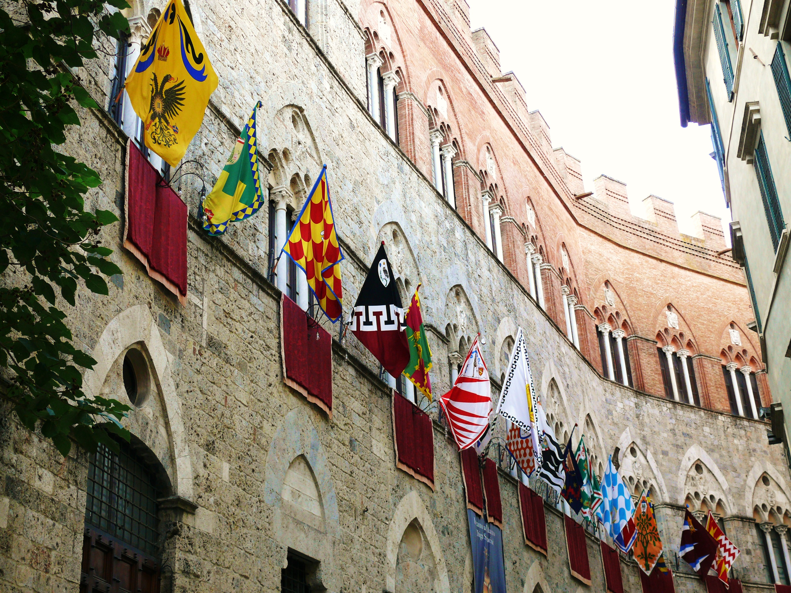 palace Chigi-Saracini in Siena, Tuscany, with the flags of "contrade" the day before the "Palio"